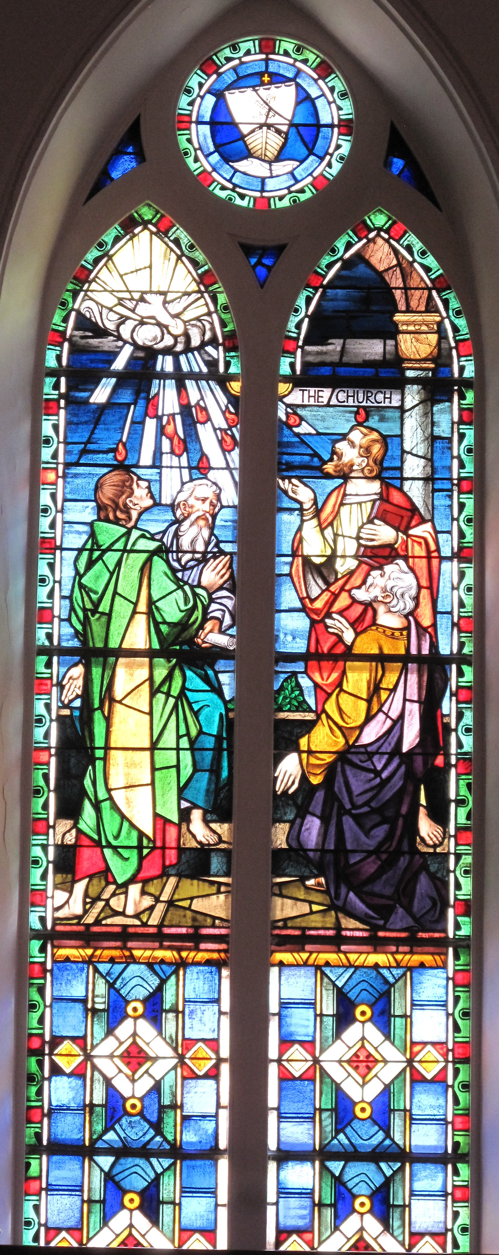 The Pentecost window at St. Matthew's Lutheran Church in Charleston, SC. Franz Mayer & Co. of Munich, Germany represented by the studios of George L. Payne of Patterson, New Jersey 1966.